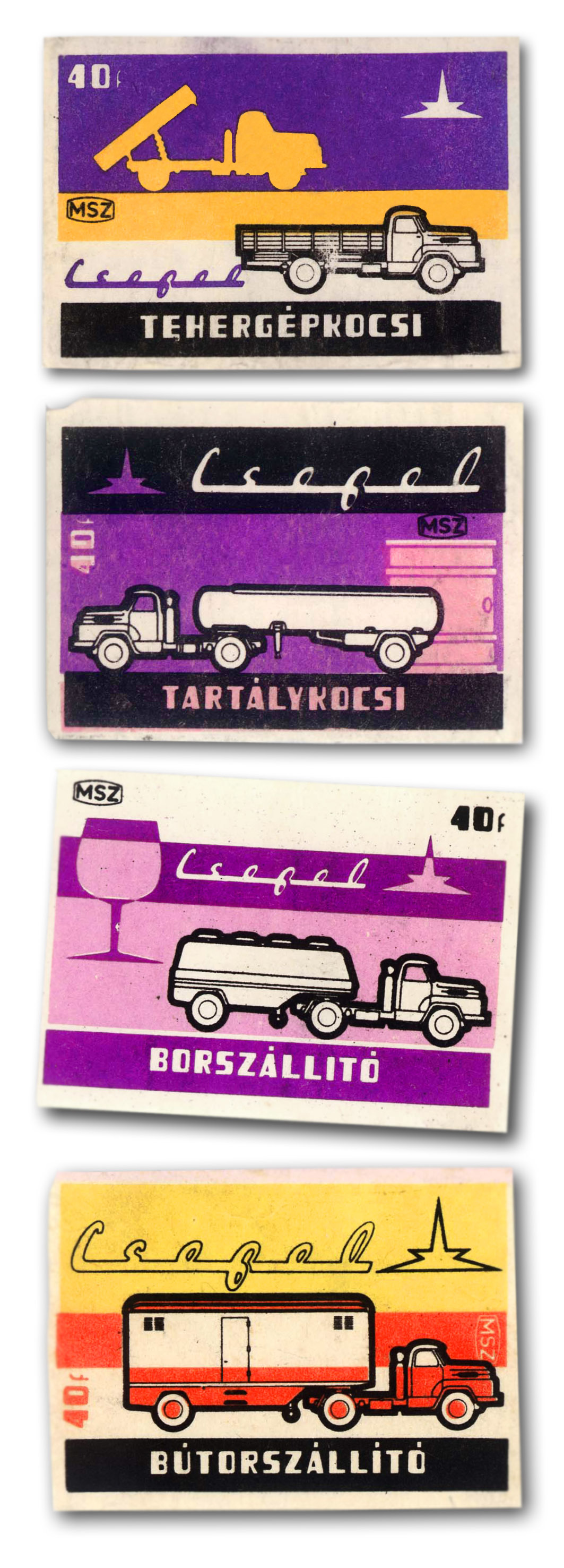 Csepel trucks - match labels 1960's years, Hungary advertising match labels.